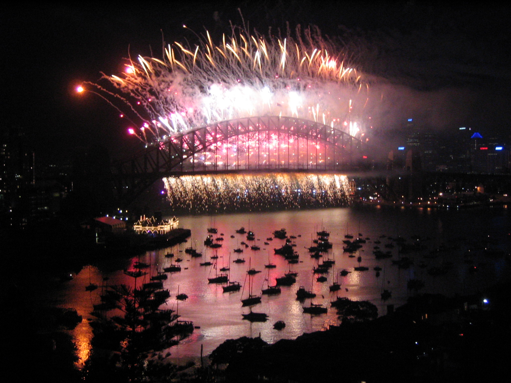 New Year's Eve